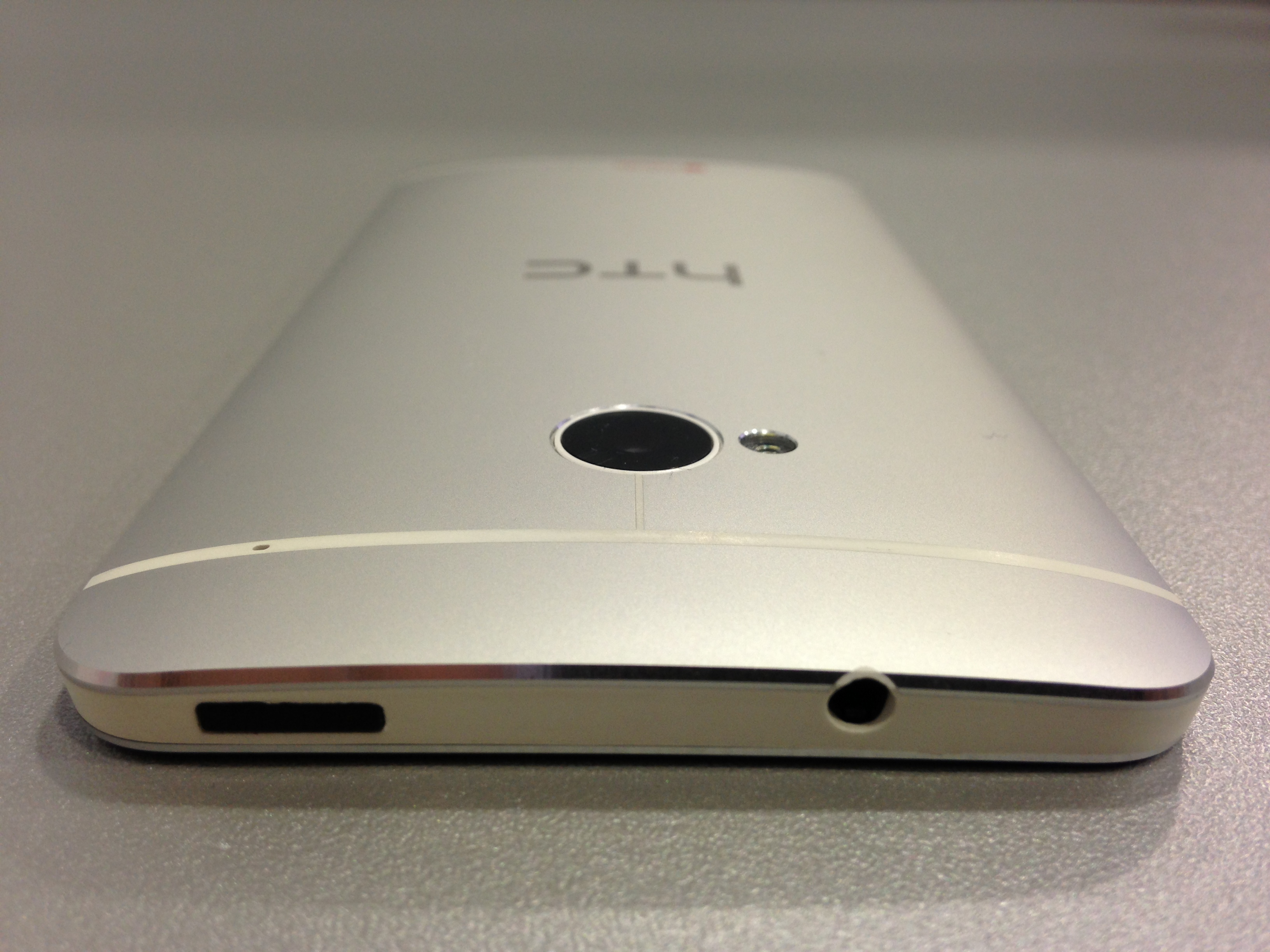 A photograph of the HTC One smartphone showing the top of the phone and its rear